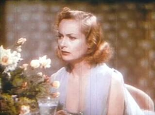 Cropped screenshot of Carole Lombard from the trailer for the film Nothing Sacred